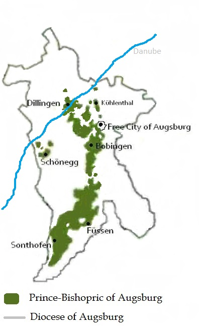 Map showing the limits of the Prince-Bishopric and the Diocese of Augsburg. In the Holy Roman Empire, the secular domain of a bishop, his prince-bishopric (Hochstift in German), was always smaller than his diocese, where his authority was limited to traditional church matters. In the course of the Reformation, some of the territories covered by the Diocese of Augsburg – starting with the city of Augsburg itself – became Protestant, and Roman Catholic parishes and other institutions were abolished. Therefore, while the Diocese maintained its traditional boundaries, as shown on this map, it no longer reflected reality on the ground. Frequently in conflict with the increasingly independent Free Imperial City of Augsburg, the bishop transfered the bishopric's seat to Dillingen on the Danube during the second half of the 15th century. However, the cathedral church and some surrounding buildings remained under the jurisdiction of the bishop. Dillingen was the residenz of the bishops until the secularization of the Prince-Bishopric in 1803.